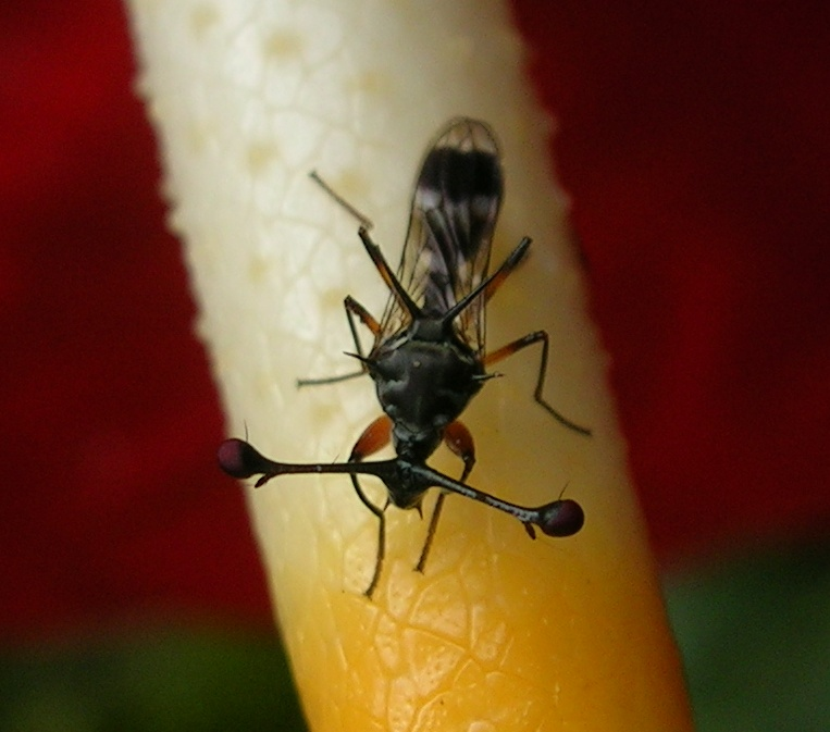 Earlier identified as Teleopsis sykesii, Diopsidae from North Wayanad, Kerala, India. Determined from photograph by Hans R. Feijen. Now identified as T. amnoni - see Feijen, HR and C. Feijen (2019). An annotated catalogue of the stalk-eyed flies (Diopsidae: Diptera) of India with description of new species in Megalabops Frey and Teleopsis Rondani. Israel Journal of Entomology 49(2):35-72.